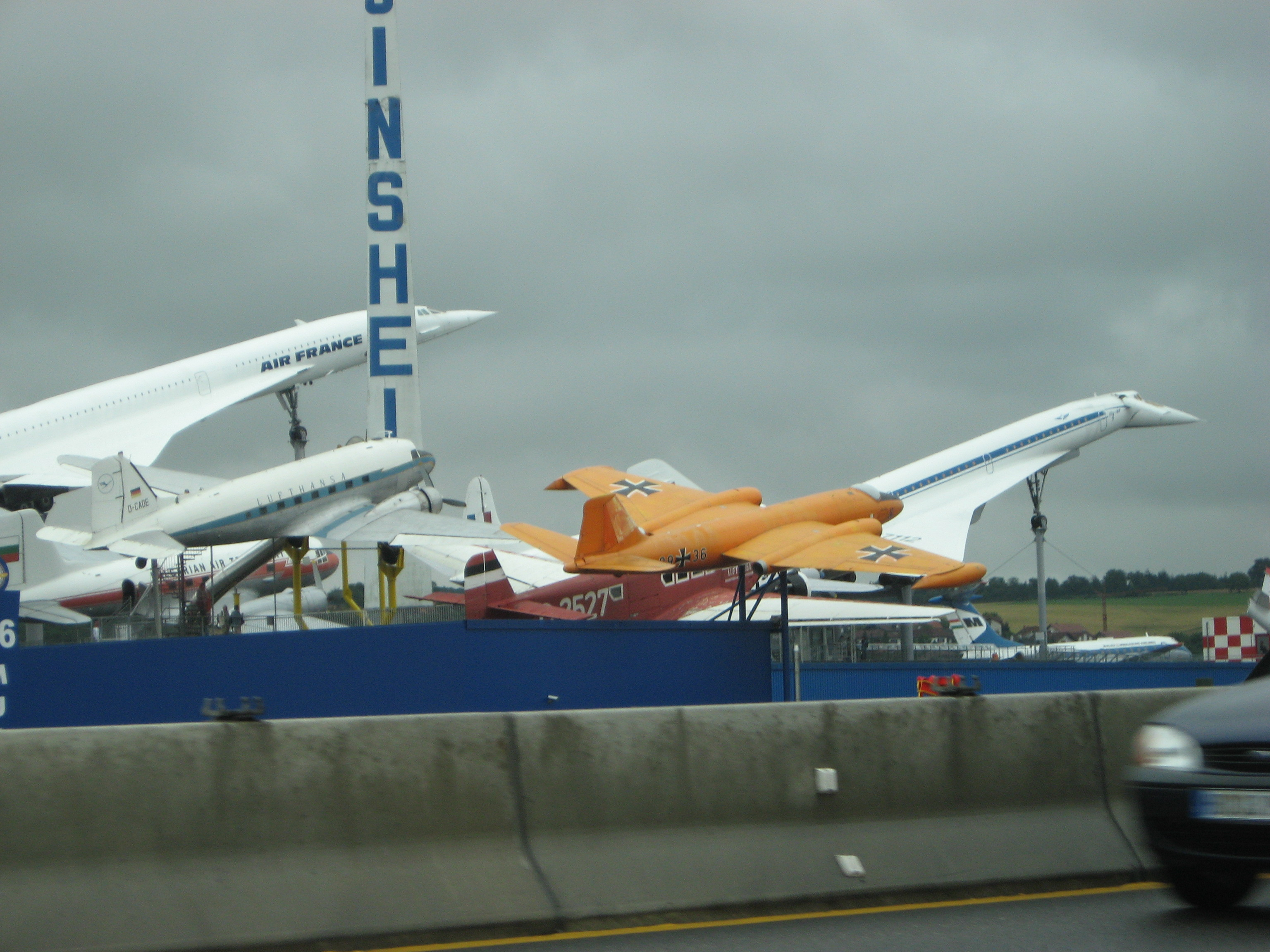 The Sinsheim Auto & Technik Museum as seen from the Bundesautobahn 6